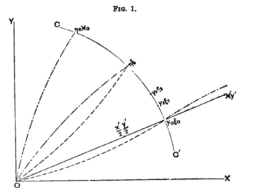 Figure 1 of Edgeworth's 1881 Mathematical Psychics.